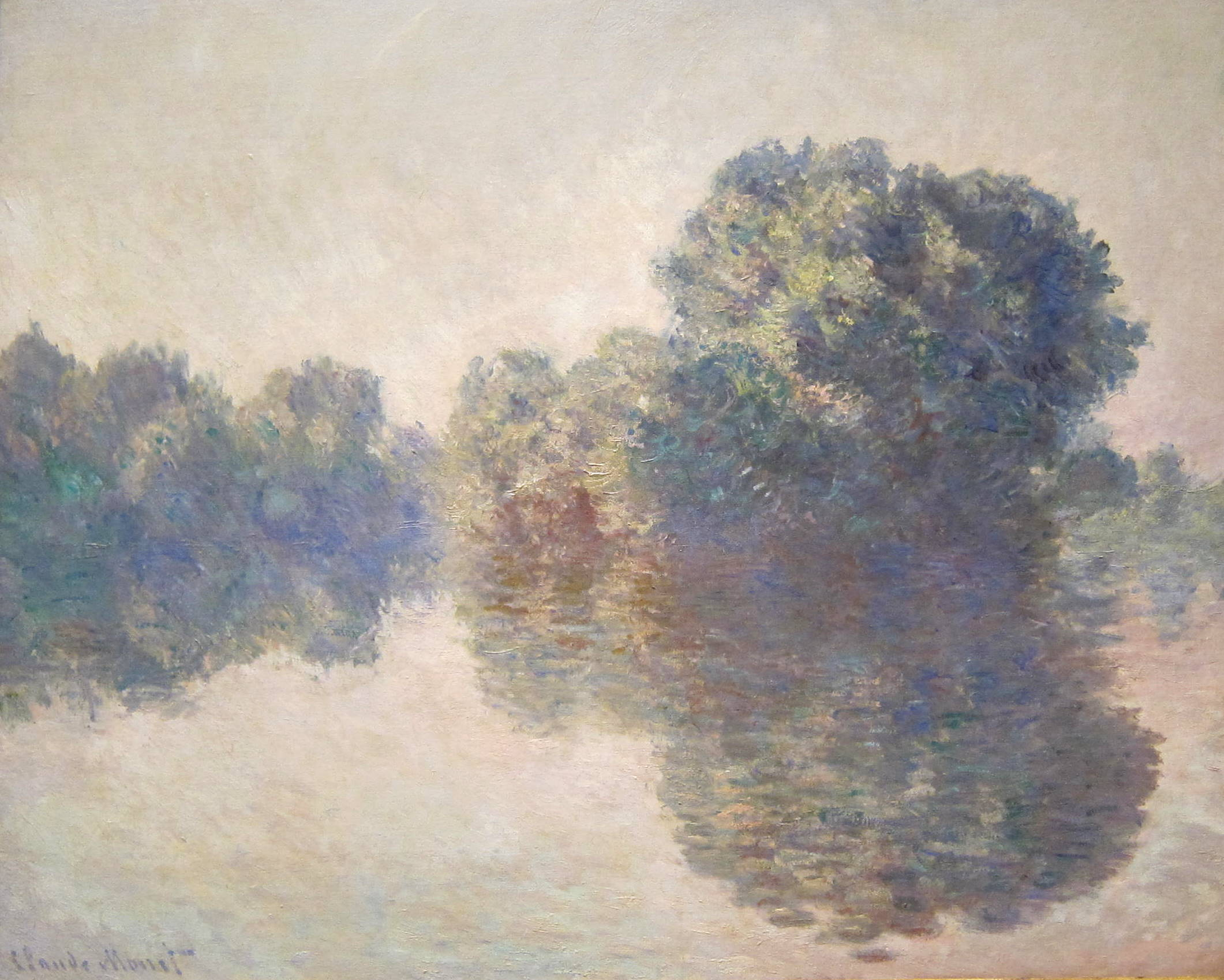 The paint here, although it is often thickly applied on the canvas, gives the impression of transparency, like thin veils of mist.